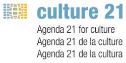 The Agenda 21 for culture is the first document with worldwide mission that advocates establishing the groundwork of an undertaking by cities and local governments for cultural development.